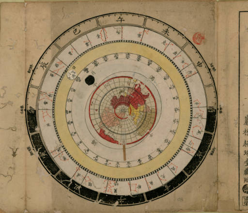 Astronomical diagram (planisphere of heaven) by Iwahashi Yoshitaka, 1801 (1st year of Kyōwa)